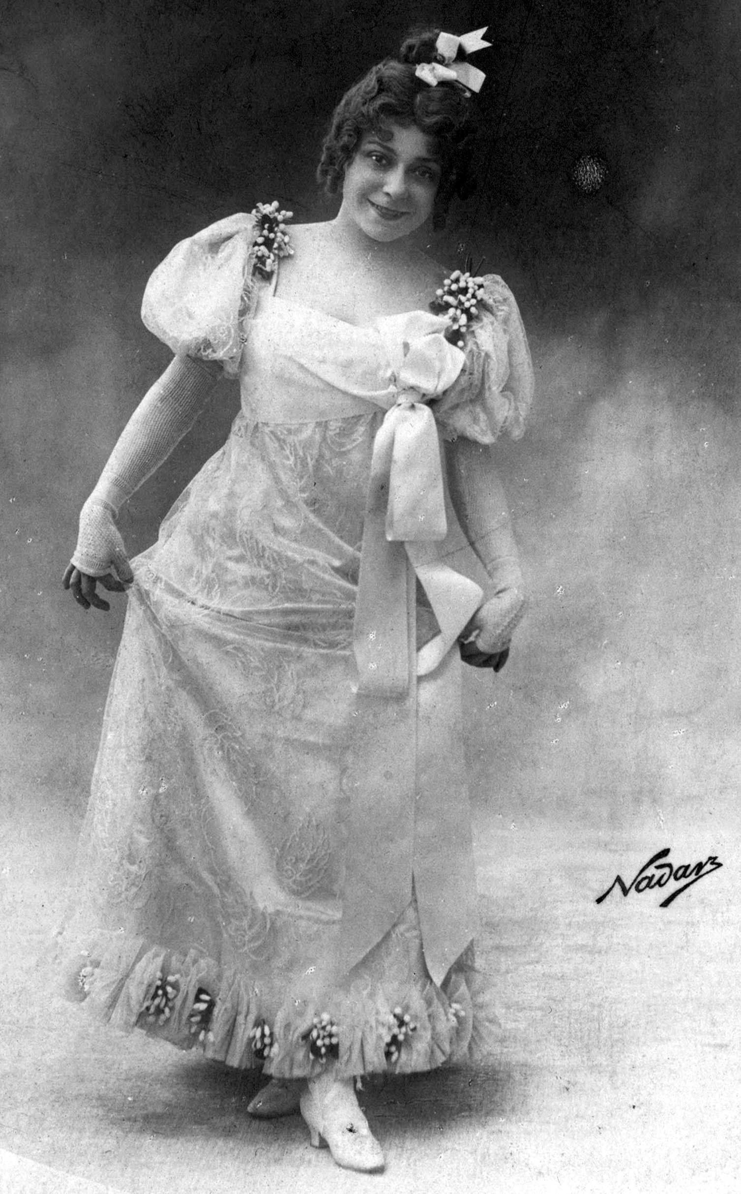 Belgian opera singer Mariette Sully (1874-1940) as Marie-Blanche in André Messager's Les P'tites Michu at the Théâtre des Folies-Dramatiques